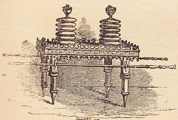 the Table of Shewbread of the Biblical Tabernacle